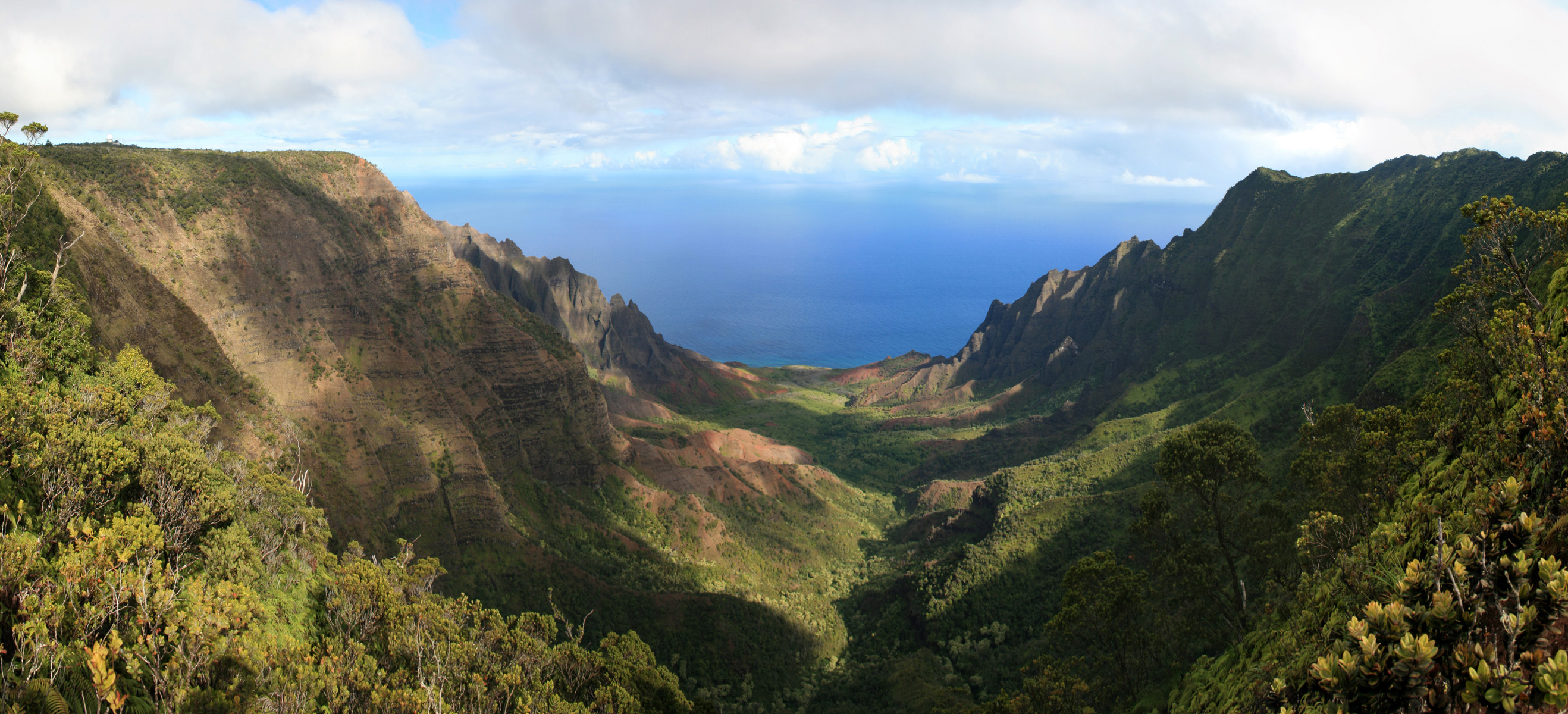 Photographer: myself, Gh5046 A stitched panorama of the Kalalau Valley taken 2007/08/30 from the Na Pali Kona Forest Reserve Pihea Trail in the Koke'e State Park in Hawaii. The photo was stitched from several other photos, cropped and resized, otherwise it is in its original state.